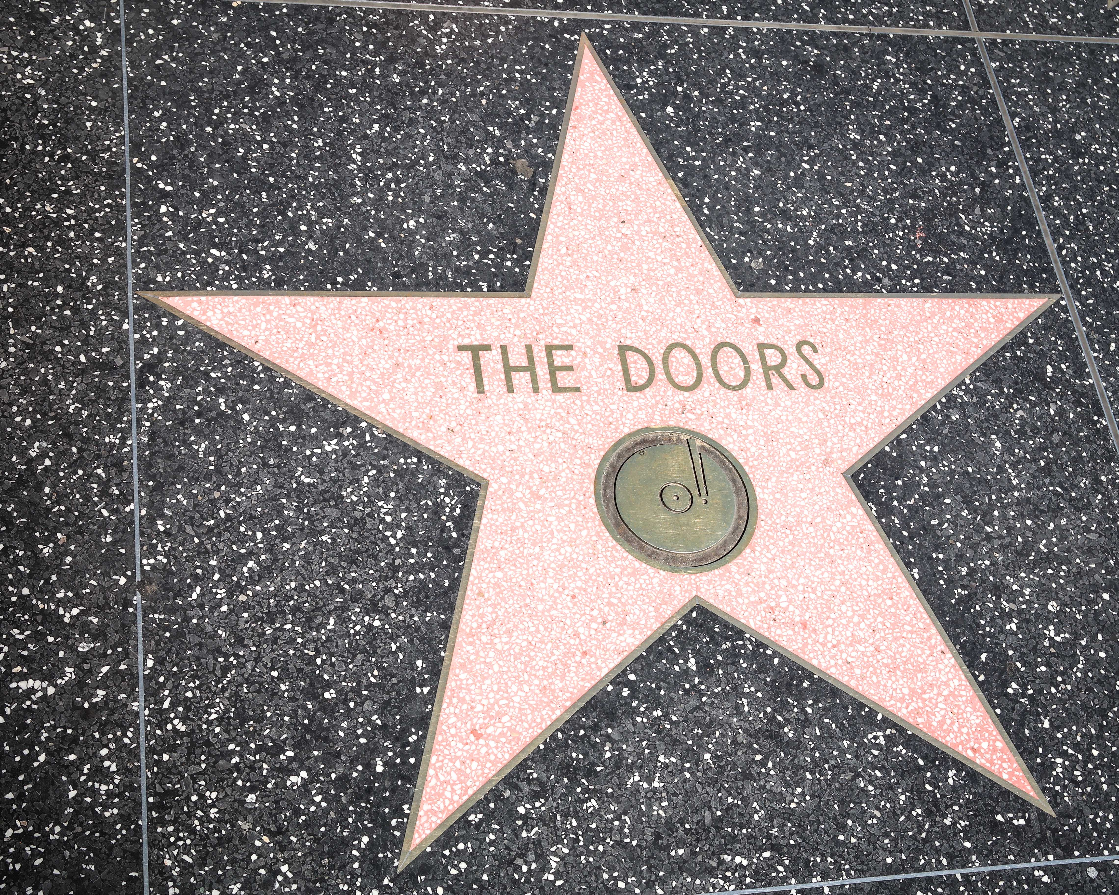 The Doors star at the Hollywood Walk of Fame